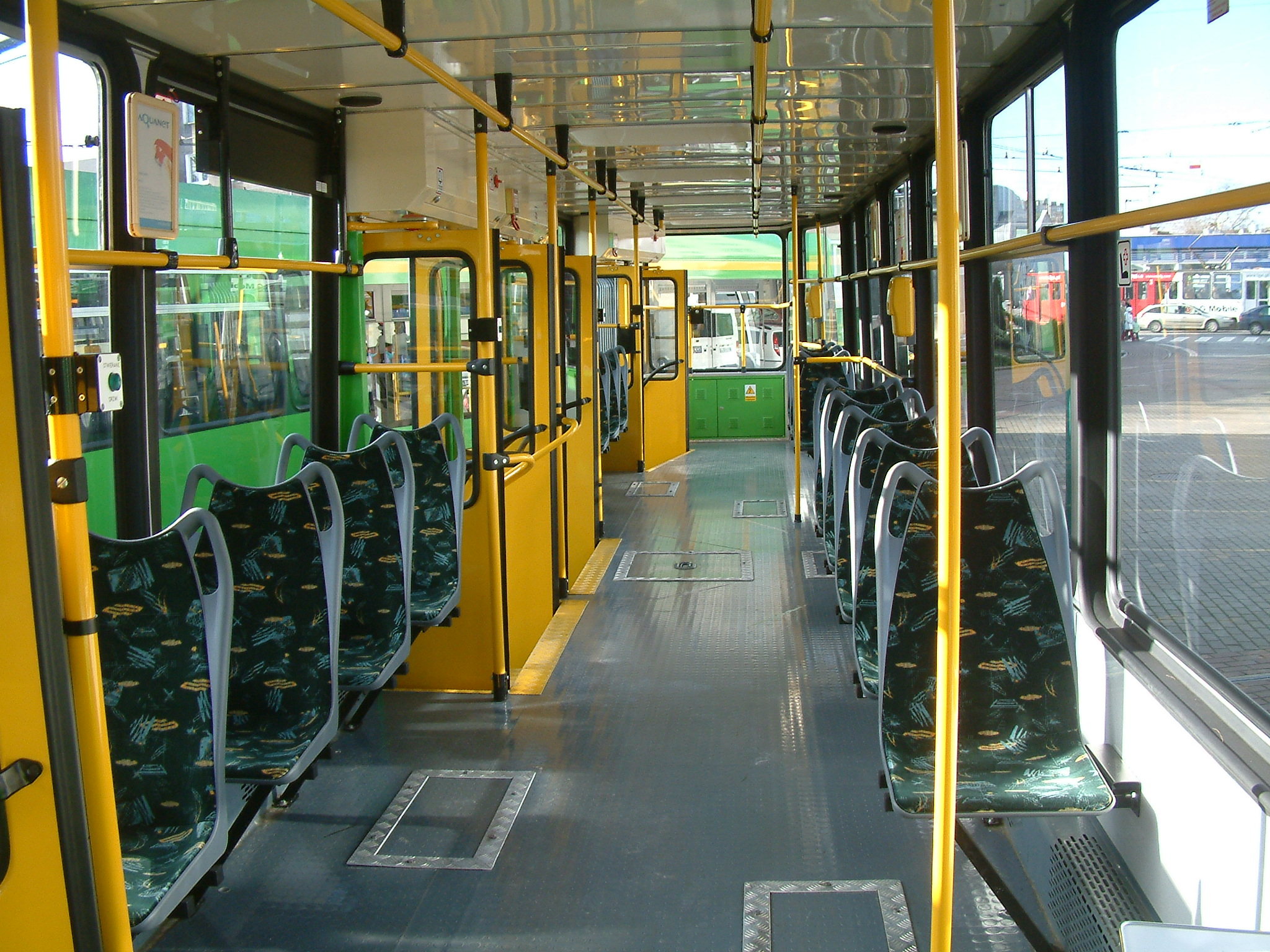 Konstal 105Na - interior, Głogowska Depot, Poznań.